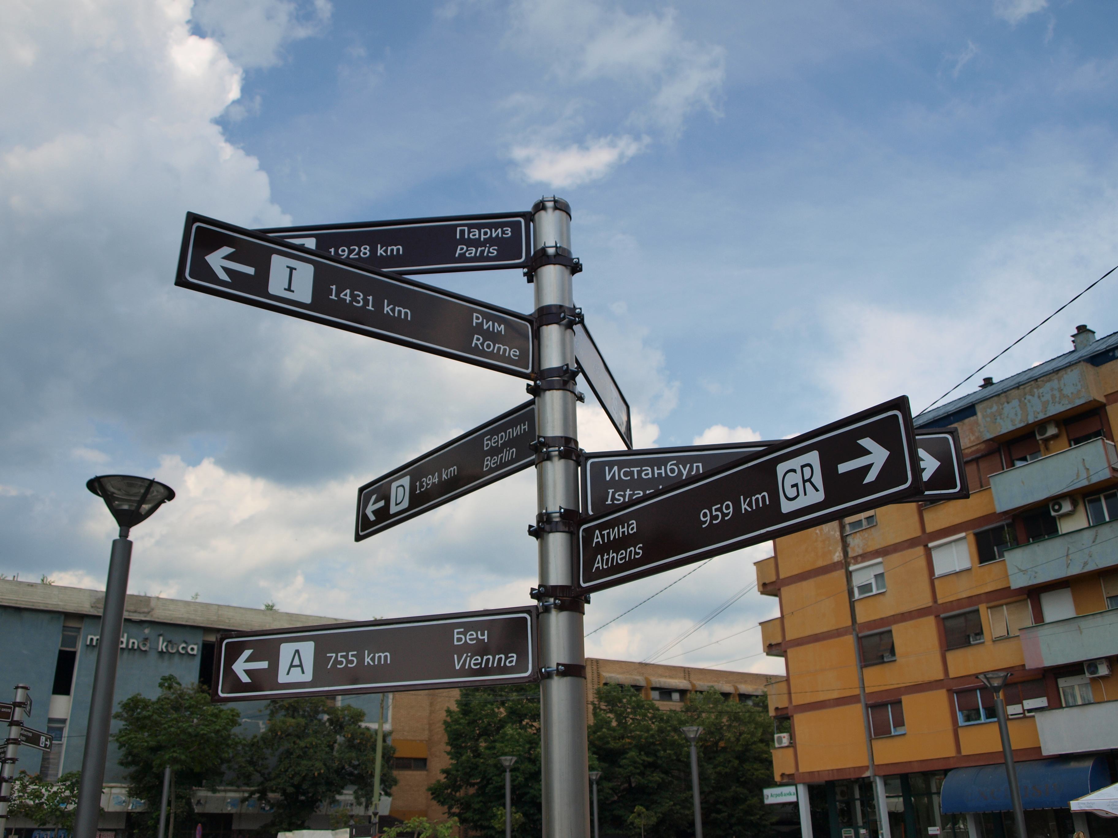 Directions to destinations around the globe in Ćuprija, Serbia.